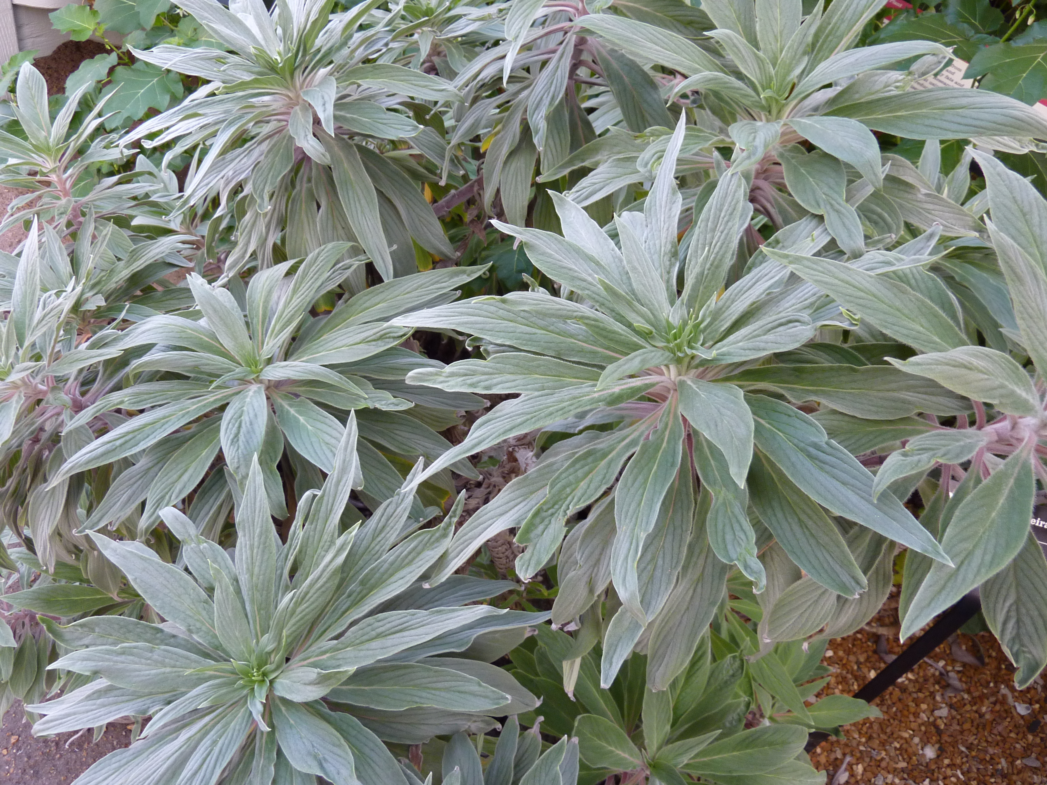 Echium candicans, "Pride of Madeira", growing in the Temperate House of the Missouri Botanical Garden